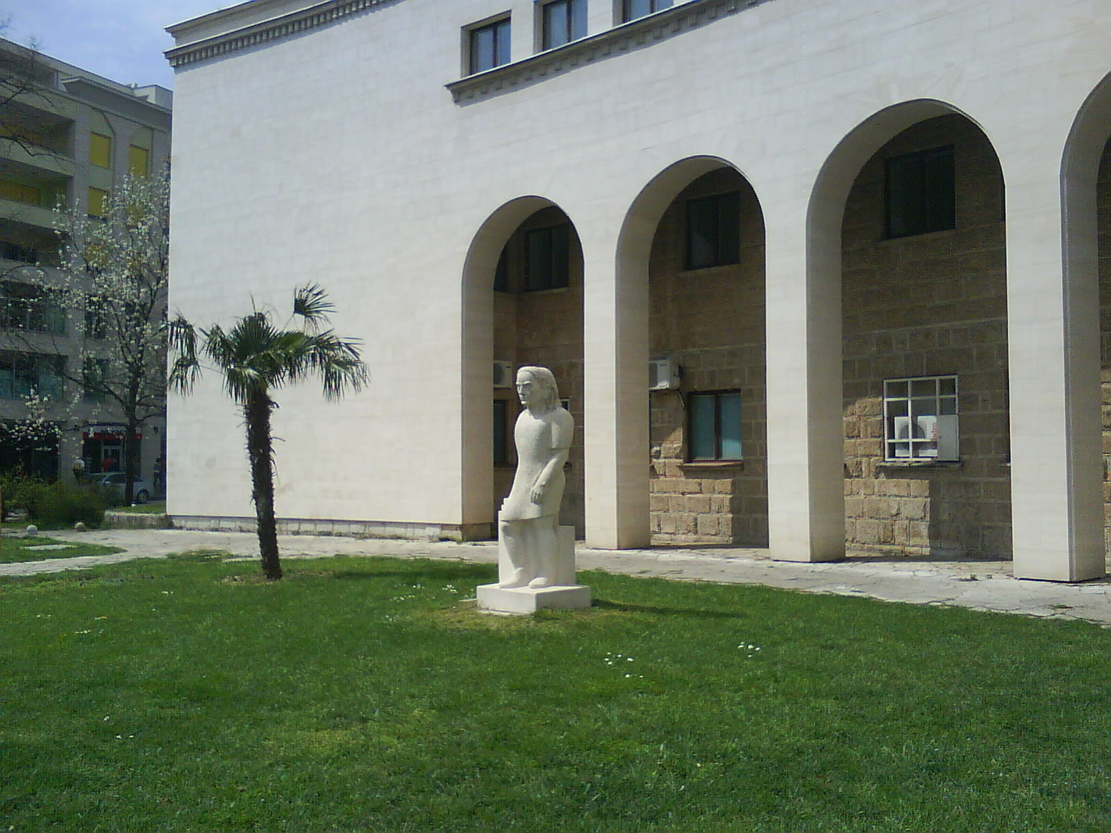 Home of Herceg Stjepan Kosača ,west Mostar